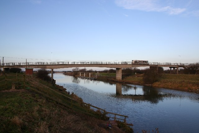 Kirkstead Bridge. The new bridge over the Witham from the site of the old bridge